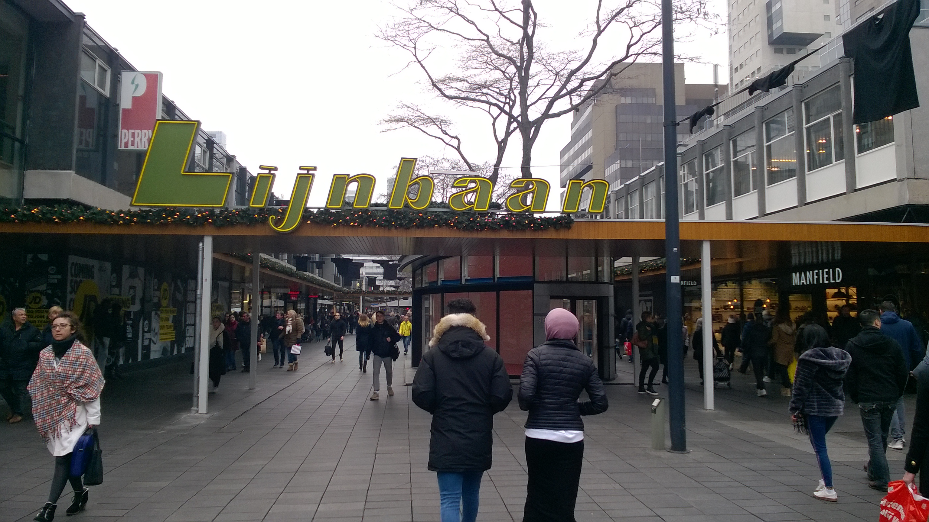 A sign indicating that one is about to enter the Lijnbaan in the city of Rotterdam.